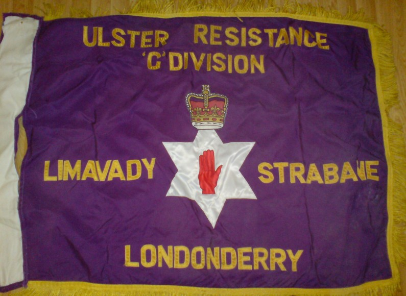 Image showing an Ulster Resistance Flag C Division.